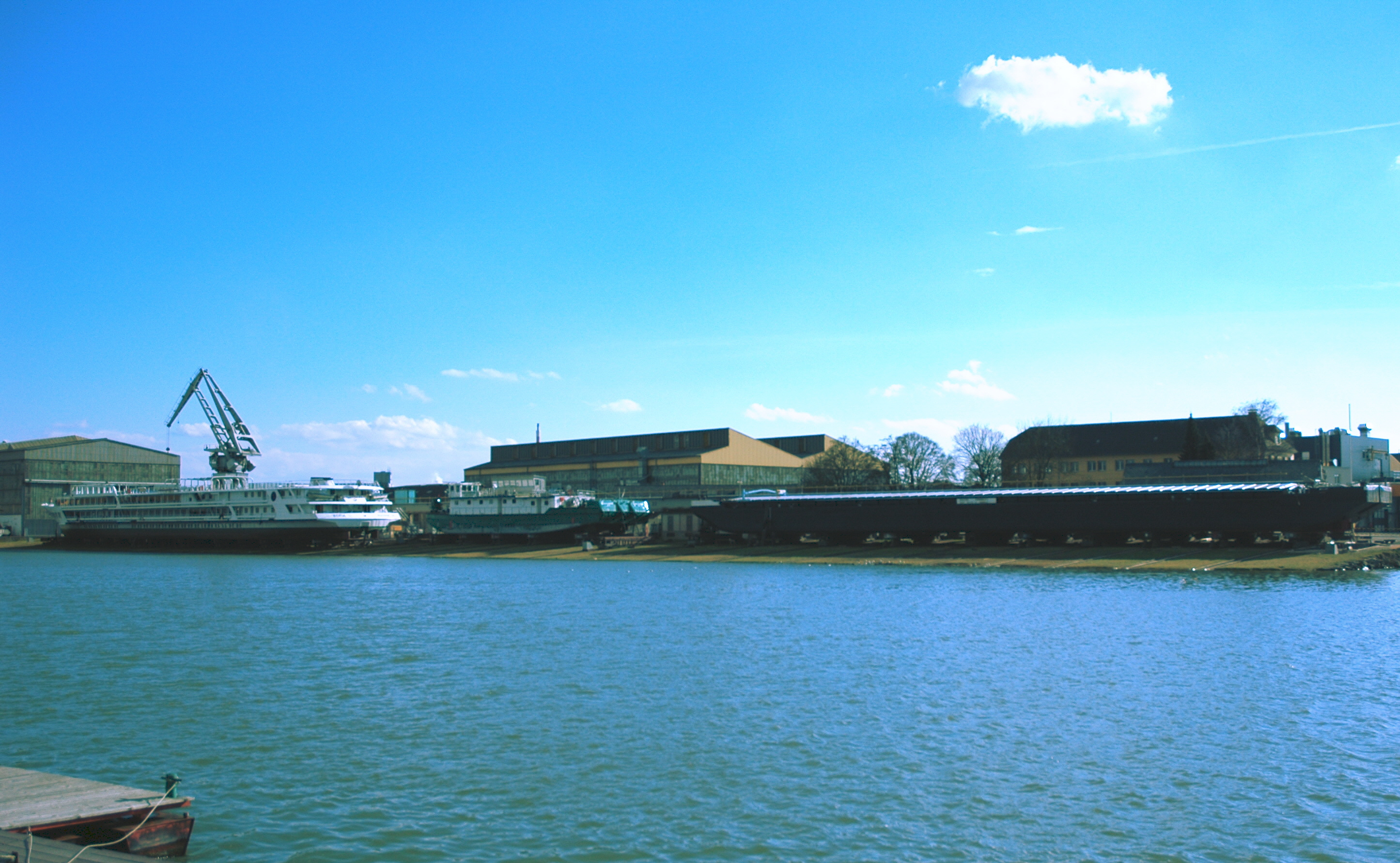 Austria, Linz, Danube